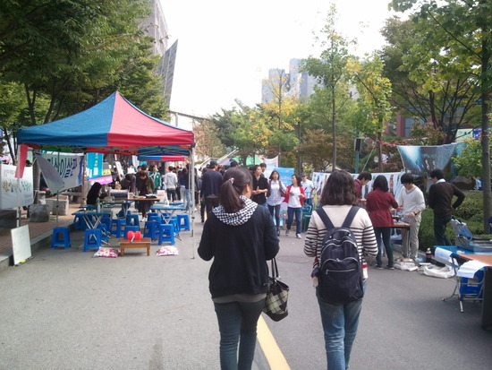 Daedongje(Festival) of Soongsil University, Seoul, Korea. photographed in October 6th, 2010.